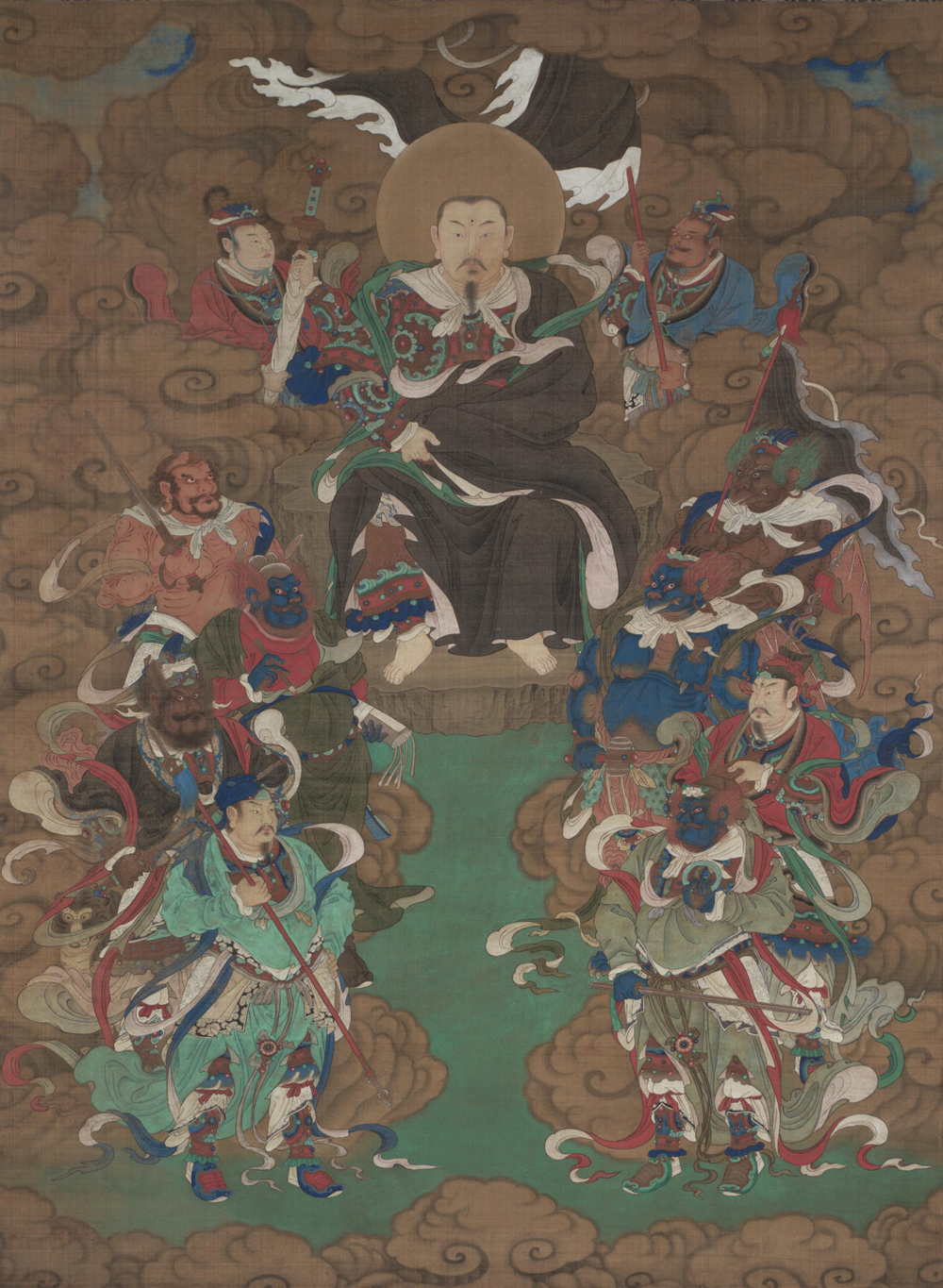 This painting depicts the Daoist deity Zhenwu (Perfected Warrior) as Xuantian Shangdi (Supreme Emperor of the Dark Heaven). The deity is shown seated on a rock throne in the clouds surrounded by attendants and divine marshals.